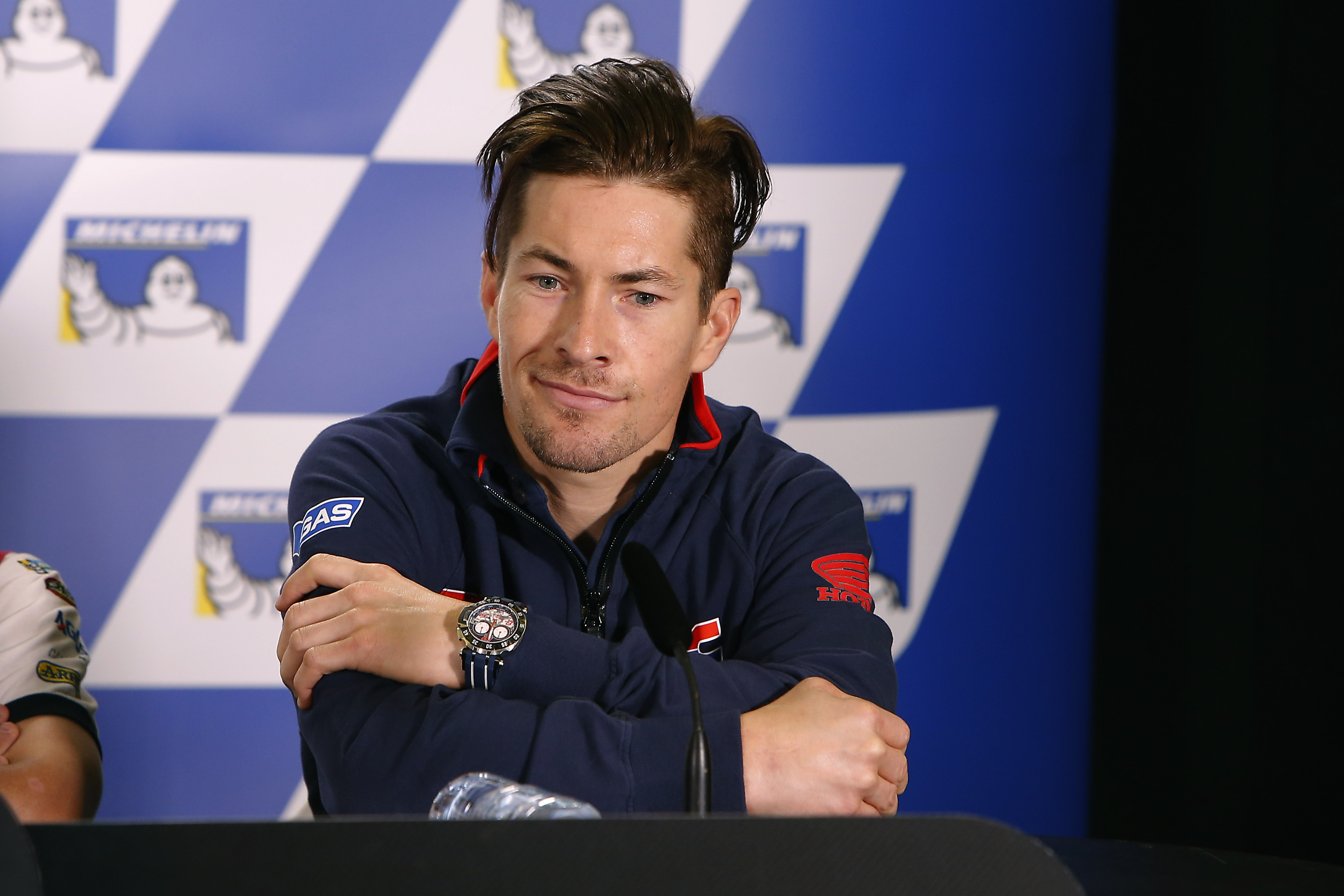 Nicky Hayden in Australian GP 2016